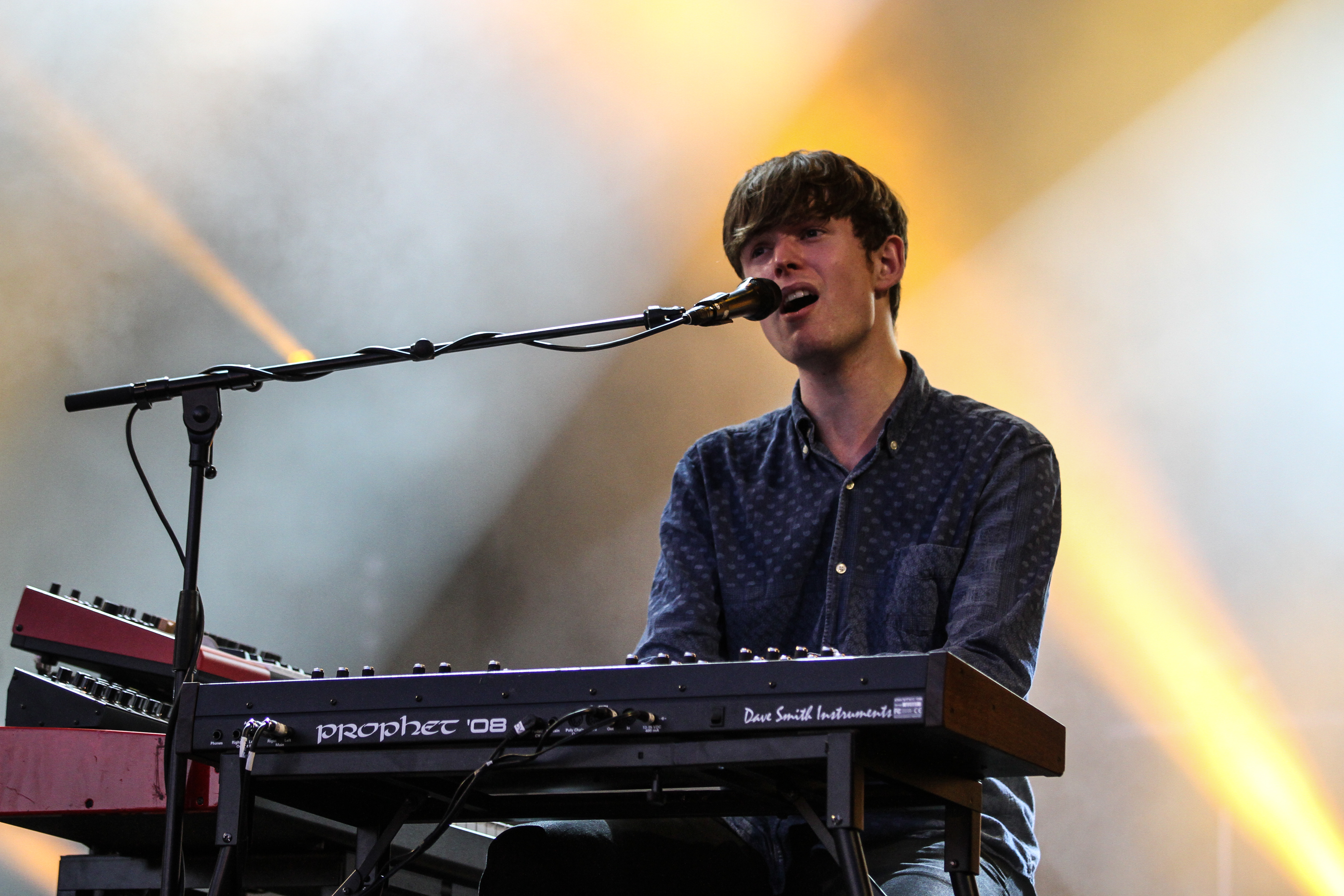 James Blake performing at Melt! Festival 2013